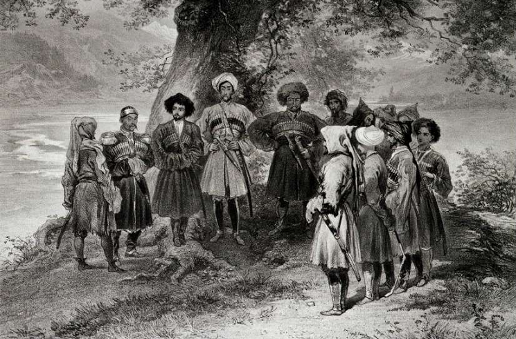 Conference of Cirkassian princes in 1839-40